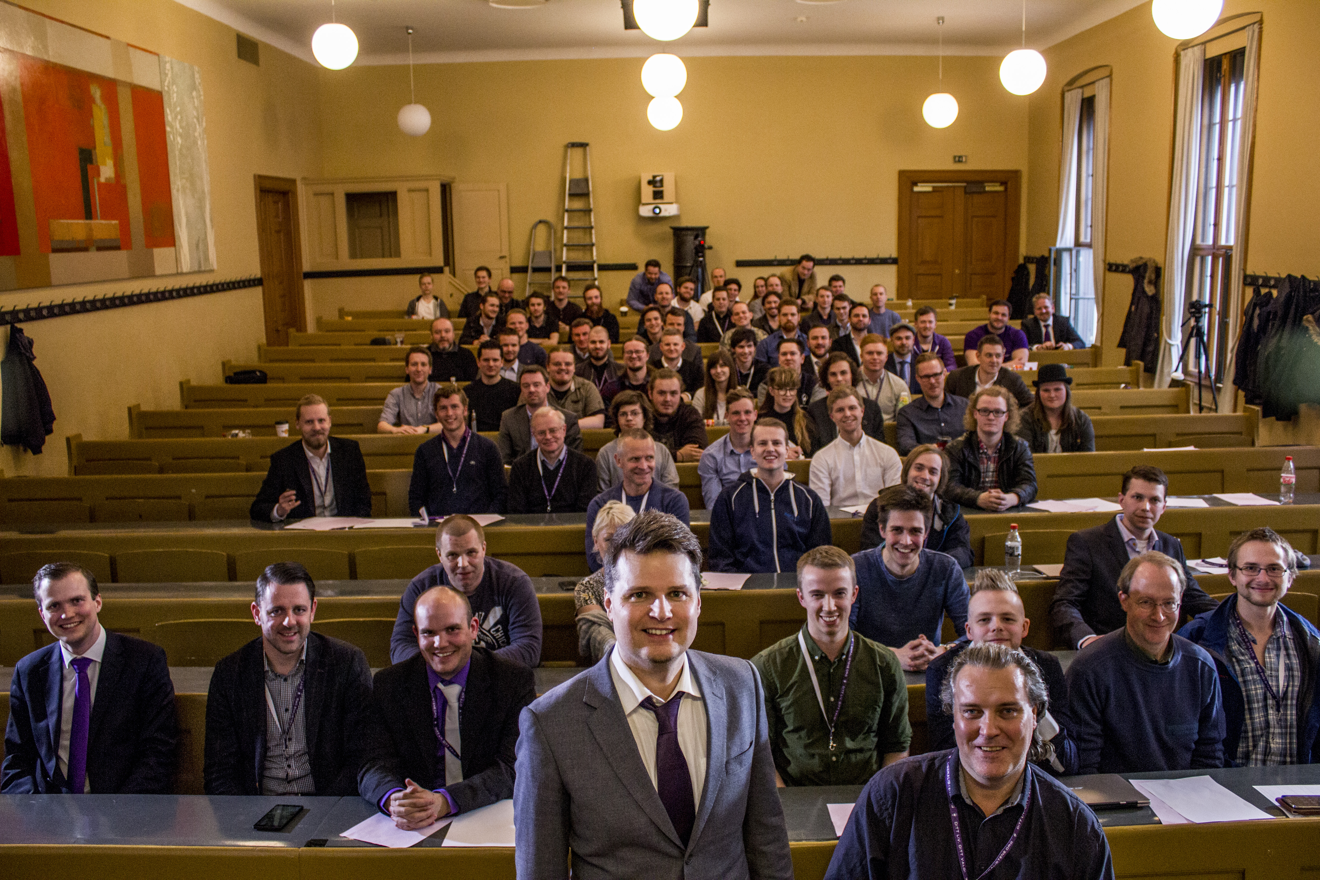 This image illustrates Liberalistene's party leadership from their second landsmøte.